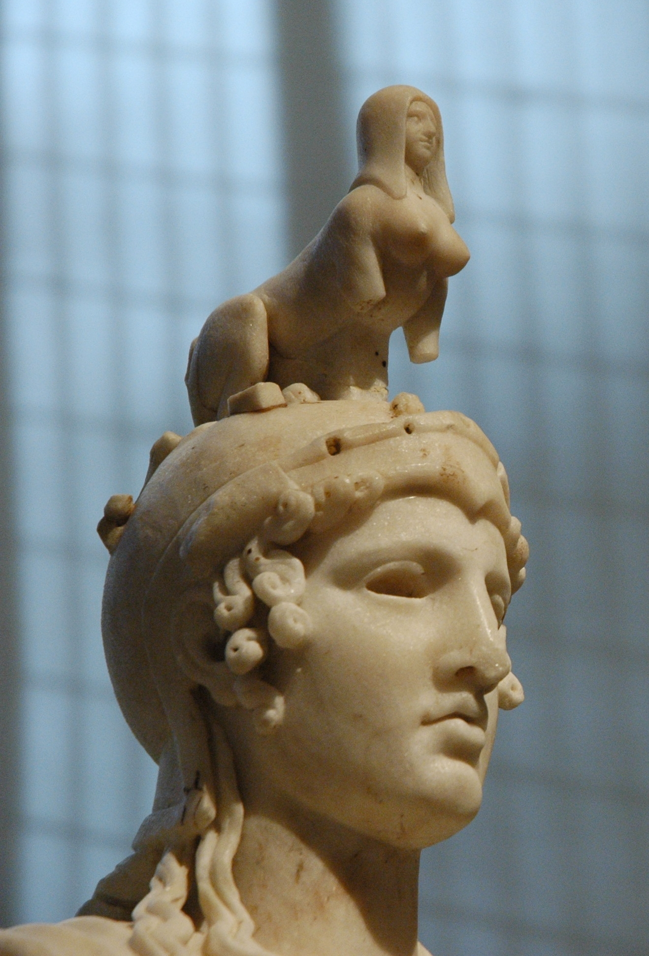 Detail of an Athena Parthenos. Roman artwork sculpted in marble between 130 and 150 AD. It's a copy of a 11 metres-high Greek original of gold and ivory, sculpted by Phidias for the Parthenon (Athens) between 447 and 438 BC. The helmet crest is the result of a 17th-century restoration.